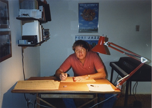 Neil Slater in Studio, Scoring, 1982